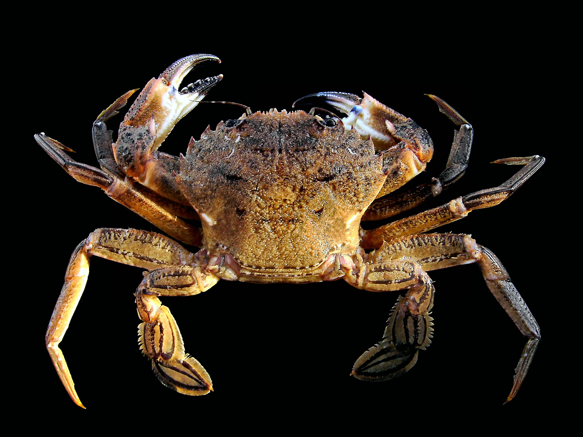 On board of RV Belgica from the southern North Sea.